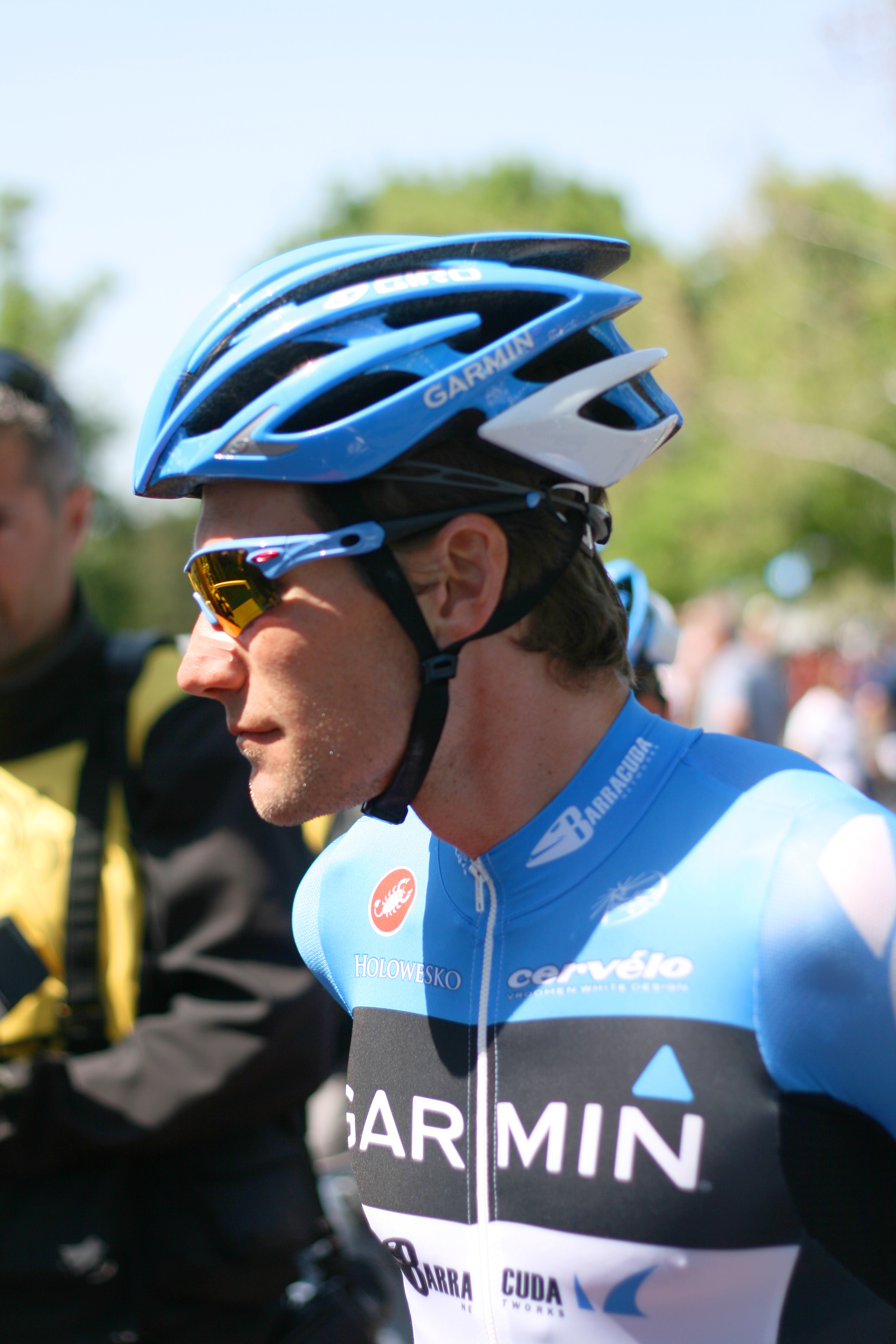 Tour of California 2012. David Zabriskie at the start of the third stage